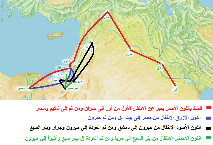 Ibrahim travel arabic map